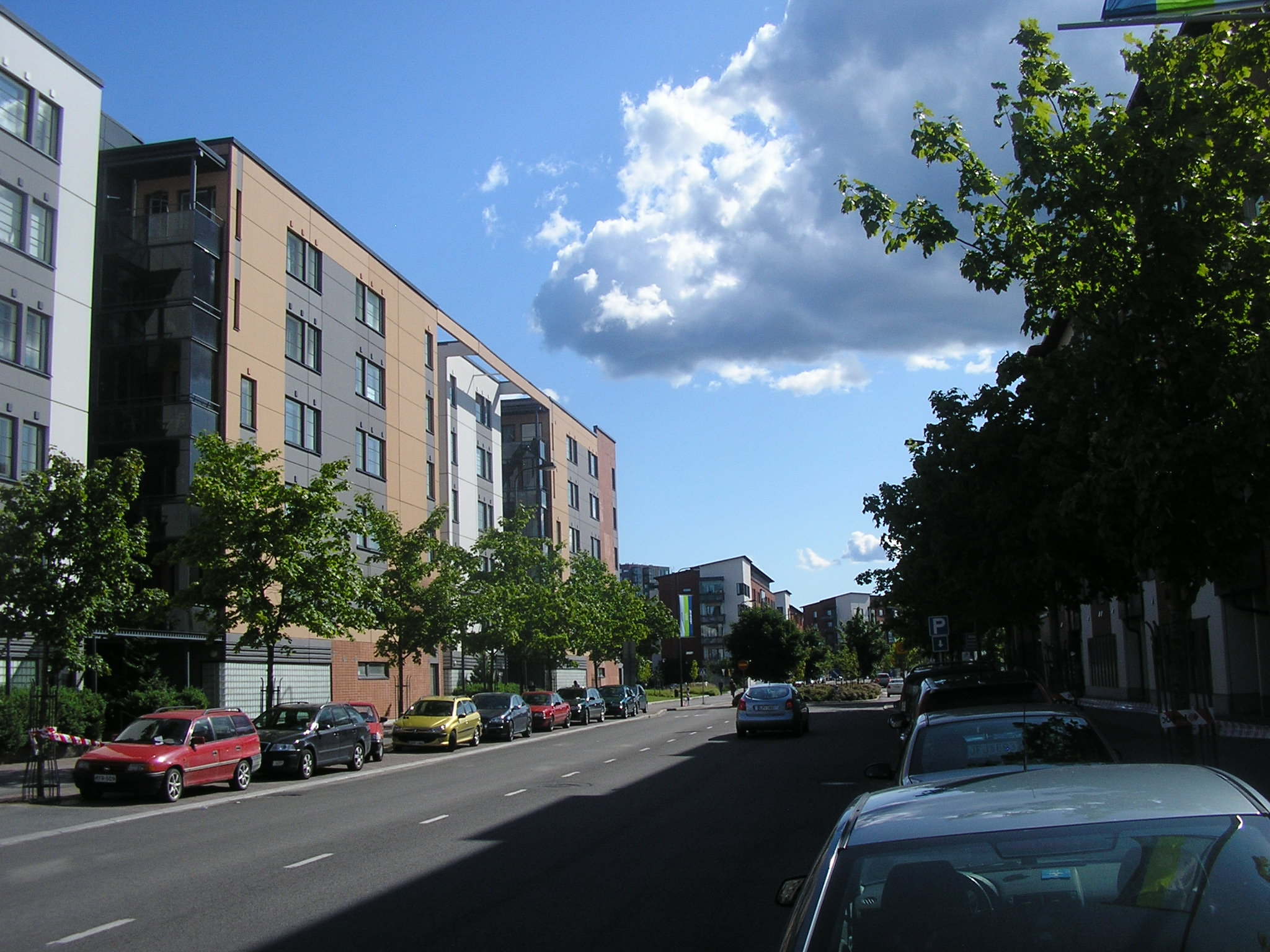 Street Schaumanin puistotie in Lutakko, Jyväskylä, Finland